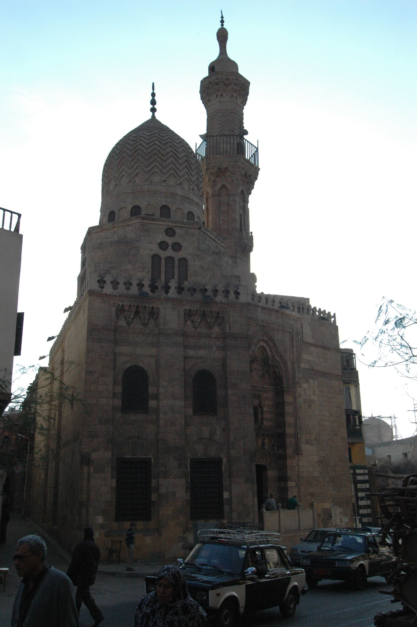 Cairo: moschea in Sh. Shaykhu